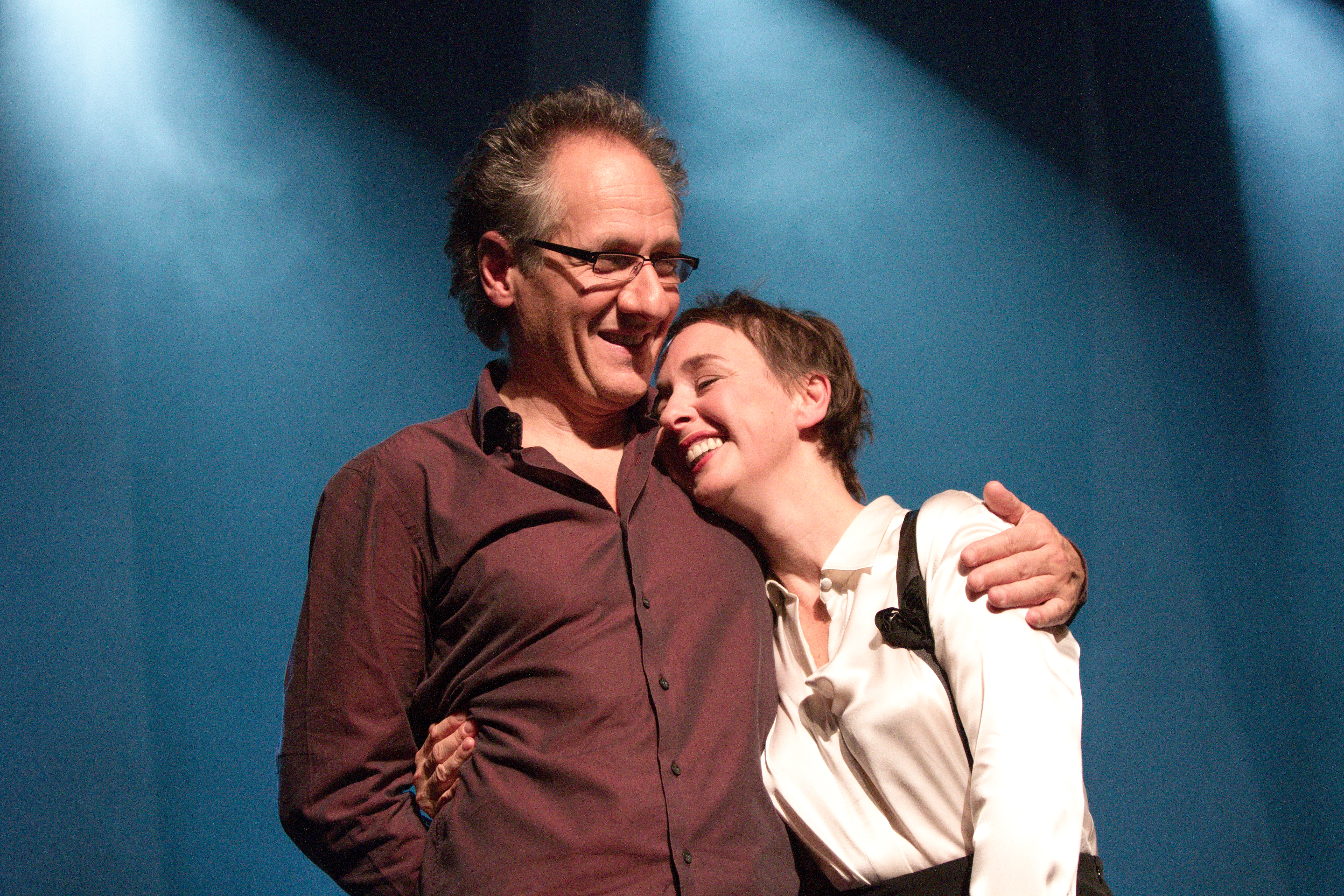 Enzo Enzo and Angelo Zurzolo live during the French song festival 2010 in Aix-en-Provence (France).